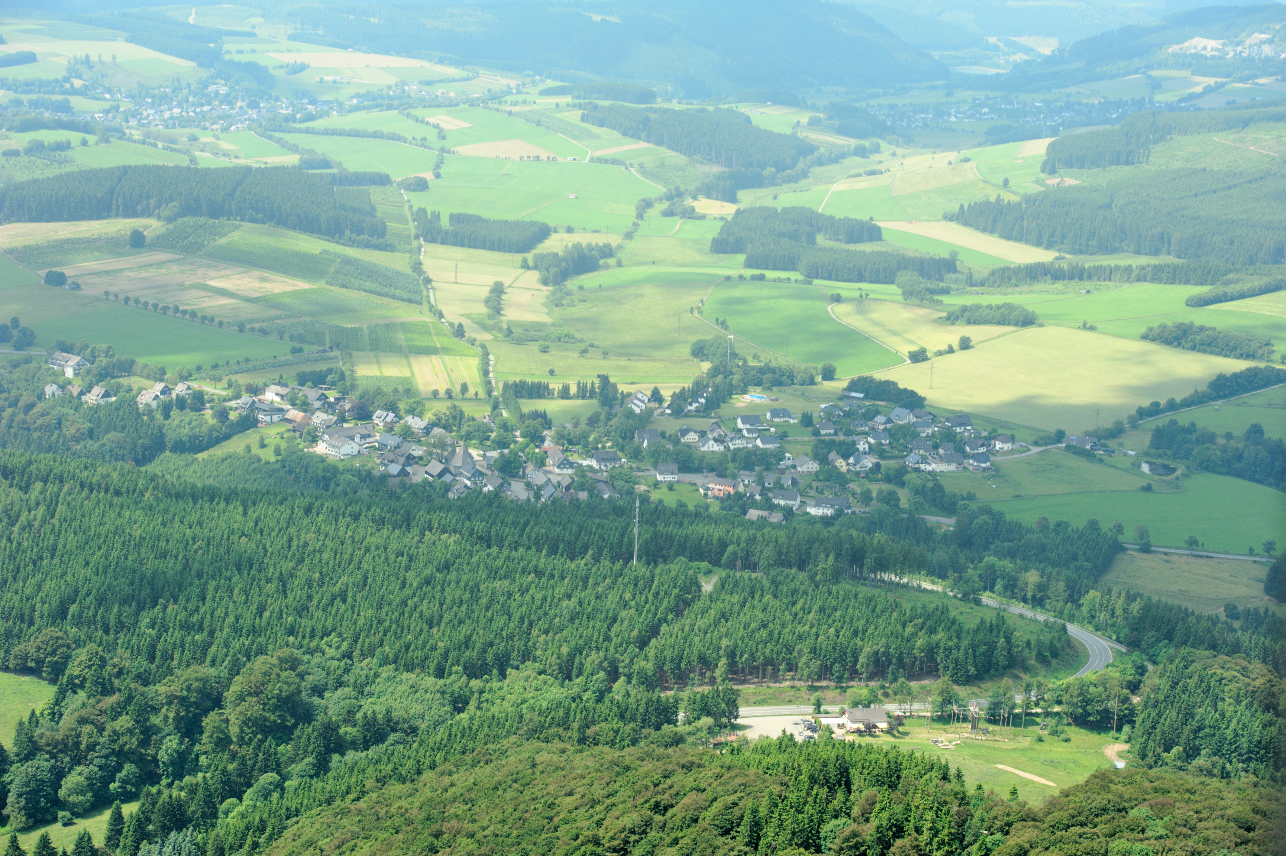 Fotoflug Sauerland-Ost, Medebach-Küstelberg The making of this document was supported by the Community-Budget of Wikimedia Germany.